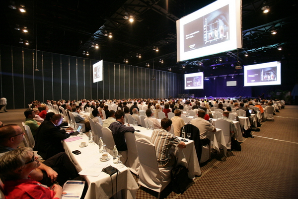 Conference at PEACH